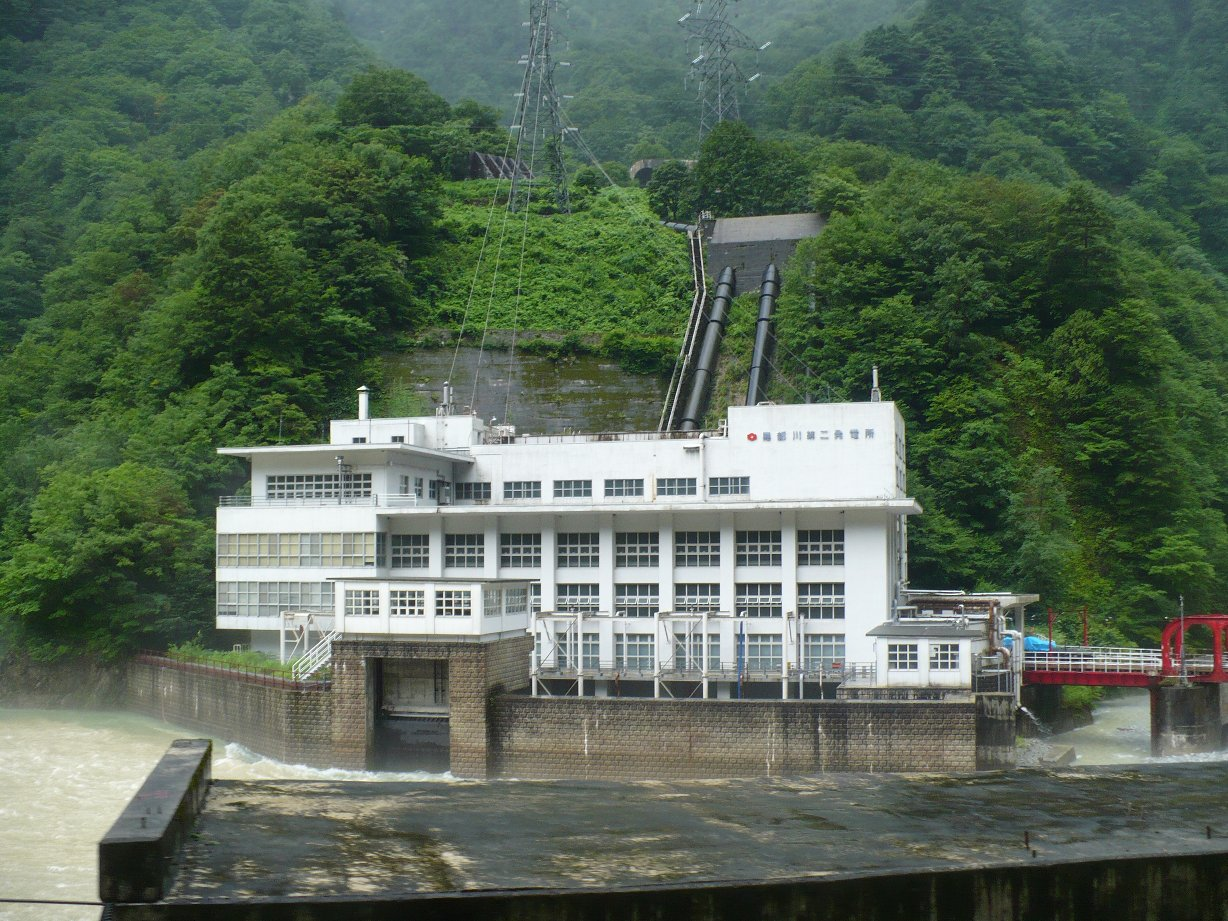 Kurobe Daini (Kurobe No.2) hydropower station of Kansai electric power corporation, Kurobe, Toyama, Japan